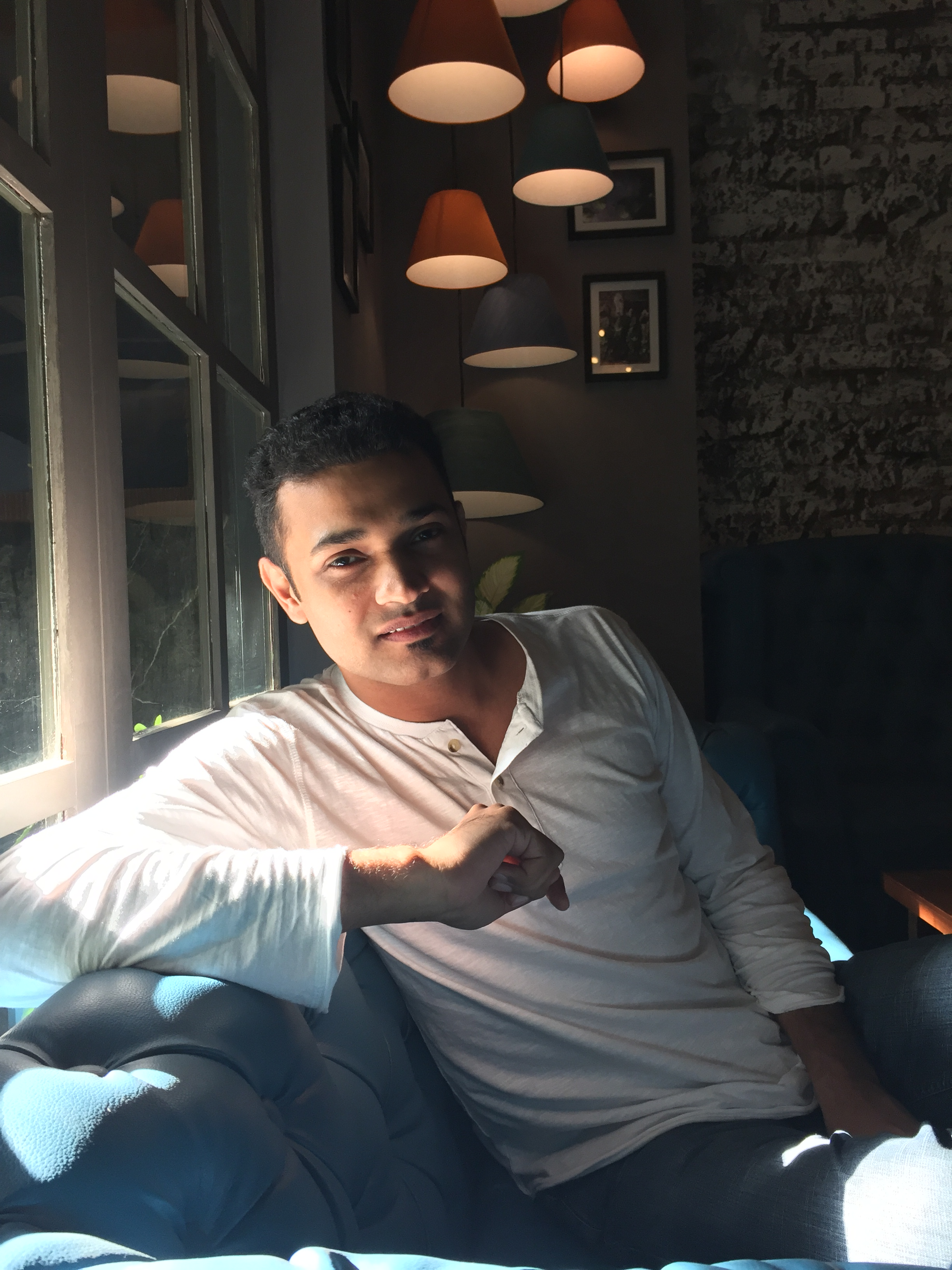 Rupinder Inderjit In New Look